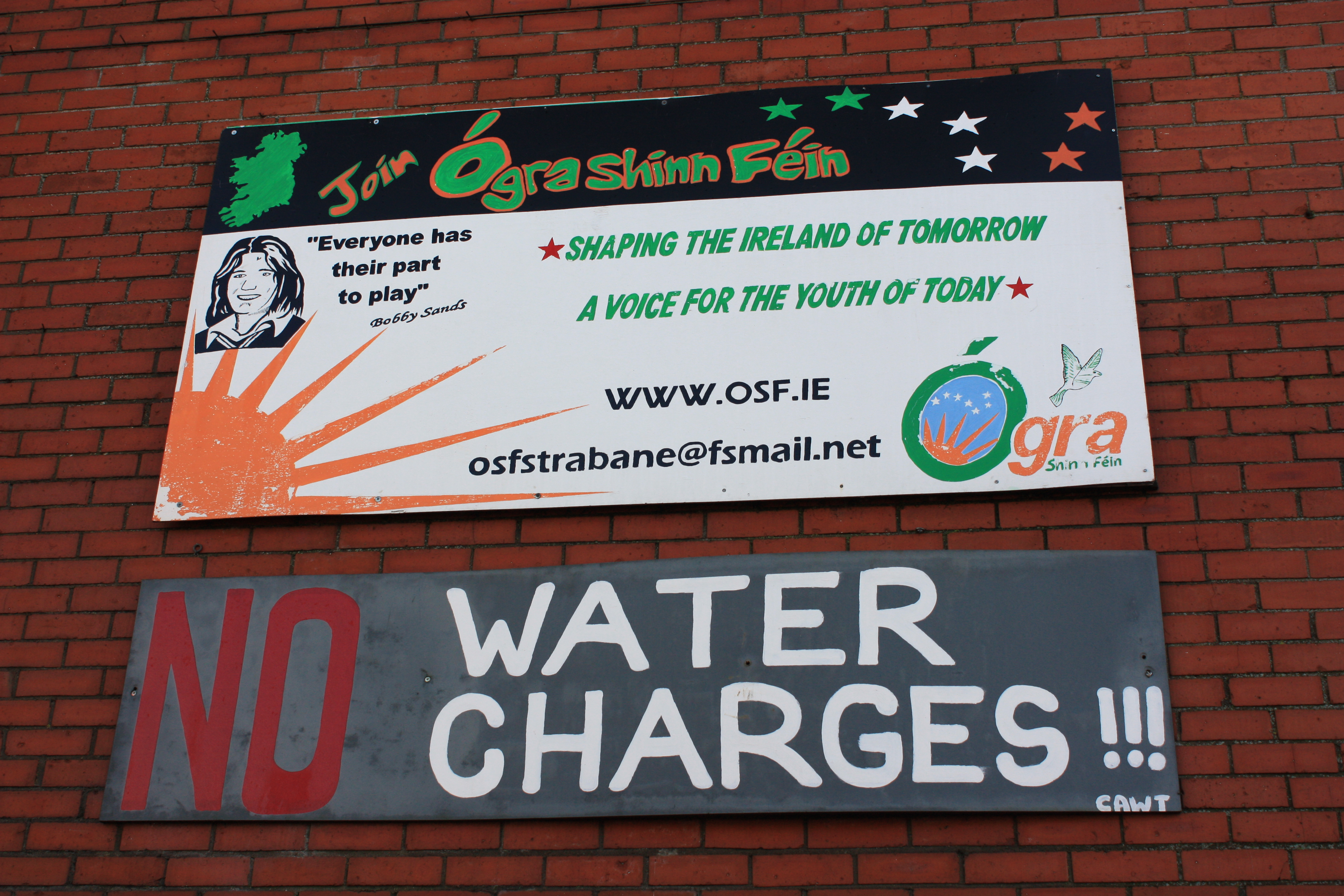 Signs in Main Street, Strabane, County Tyrone, Northern Ireland, January 2010